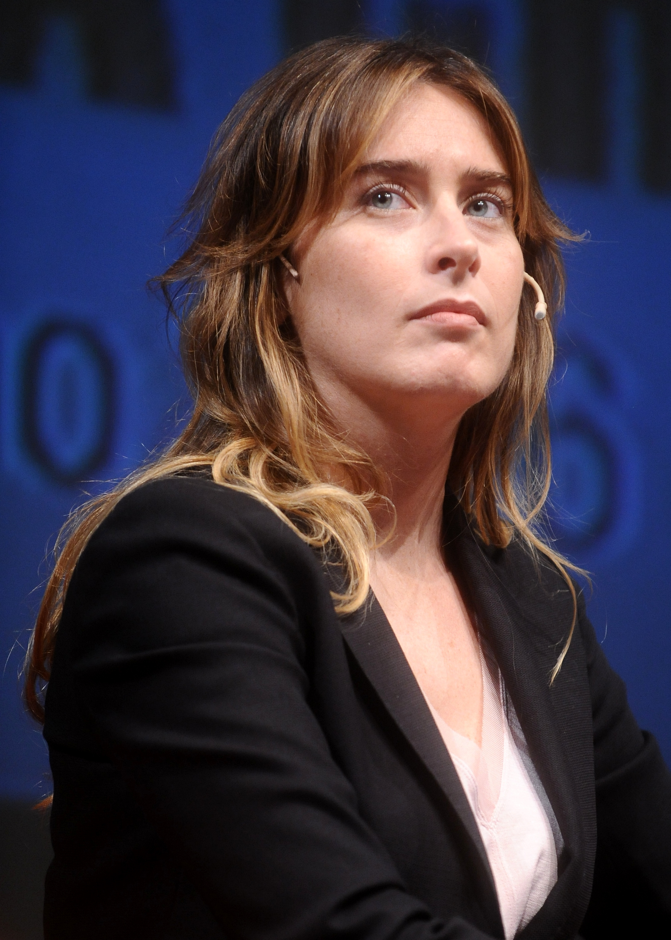 Maria Elena Boschi at Auditorium Santa Chiara in Trento for the Festival of Economics